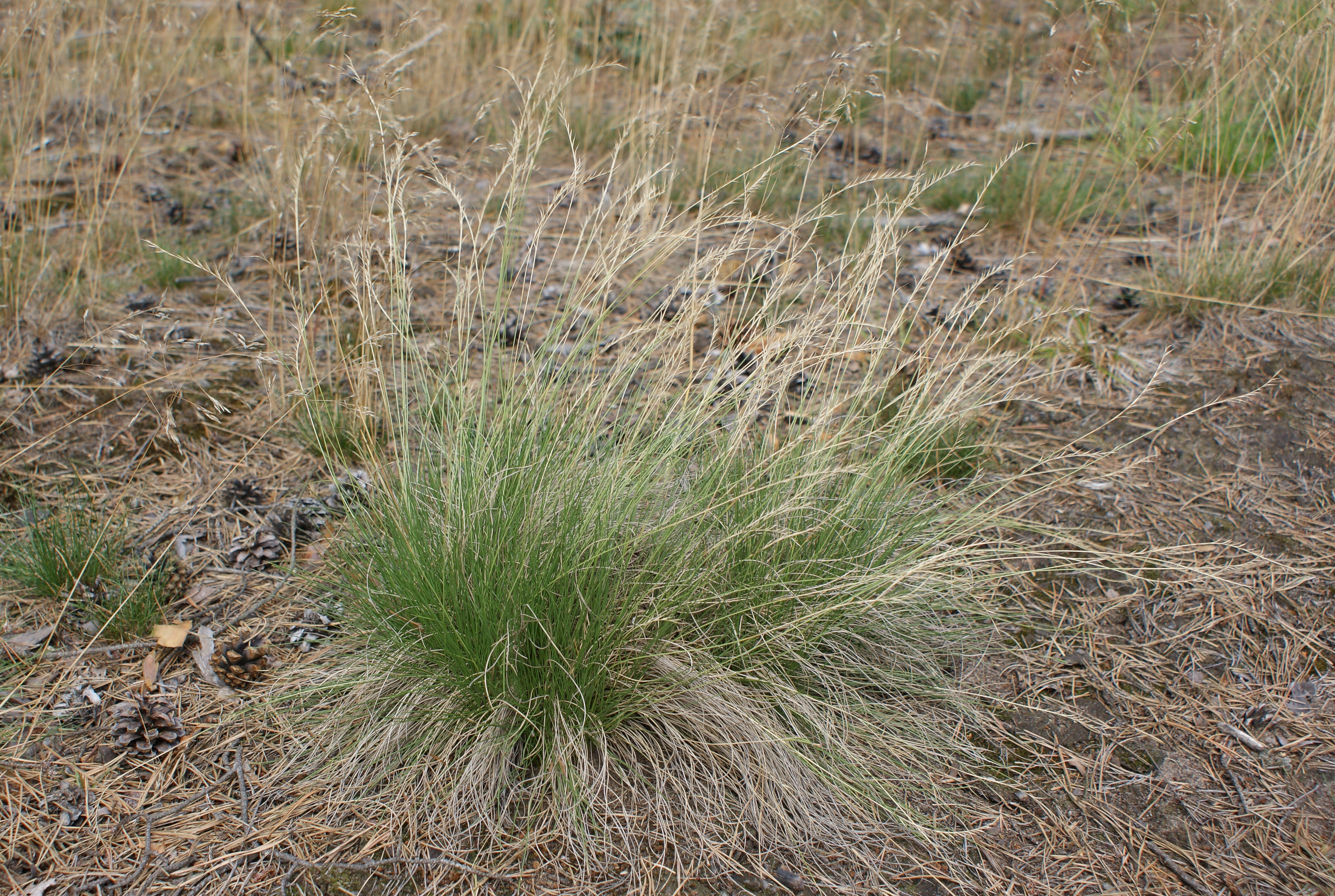 Nardus stricta